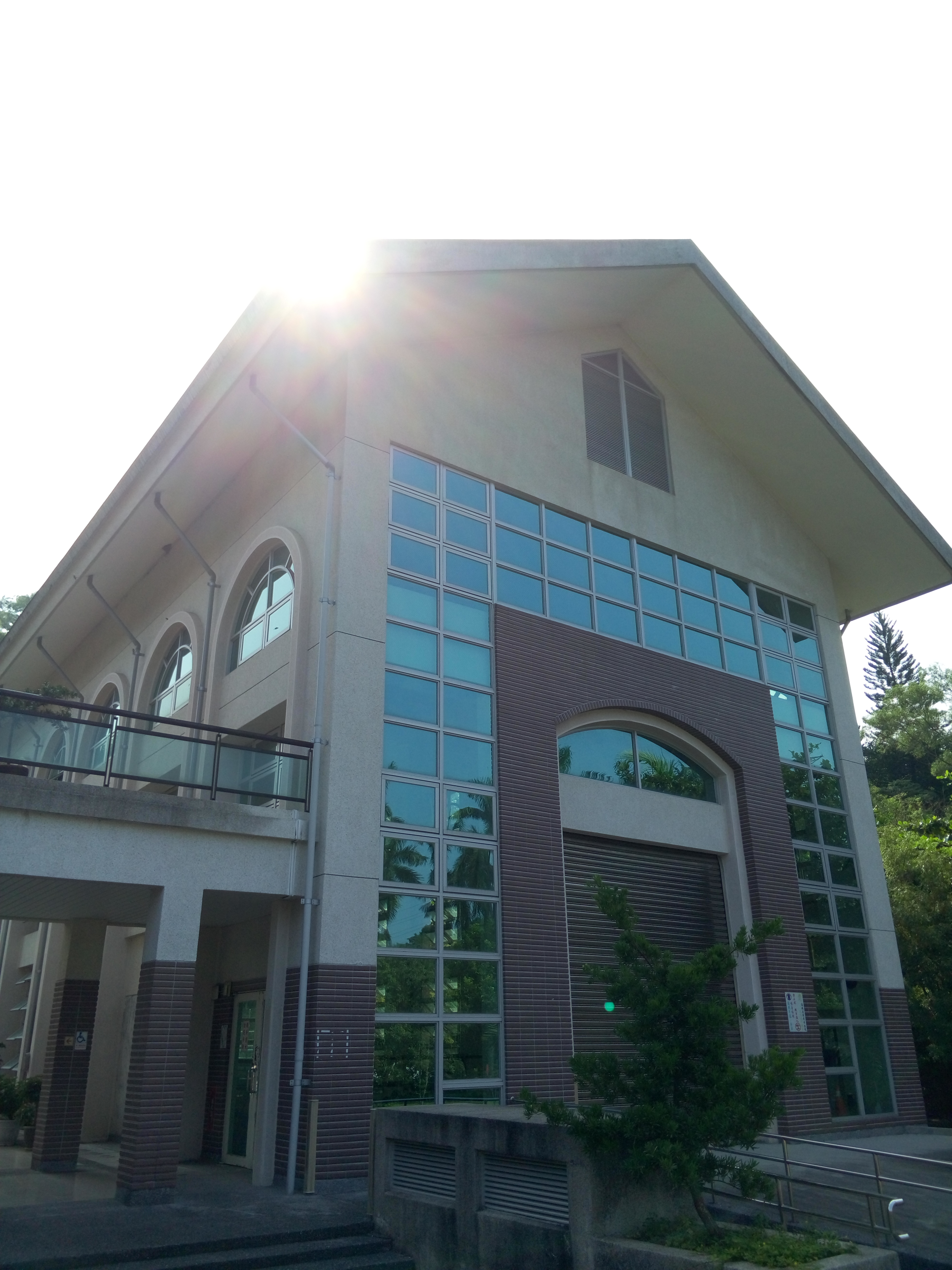 Kao-Ping Hydro Power Plant Chu-Men Unit